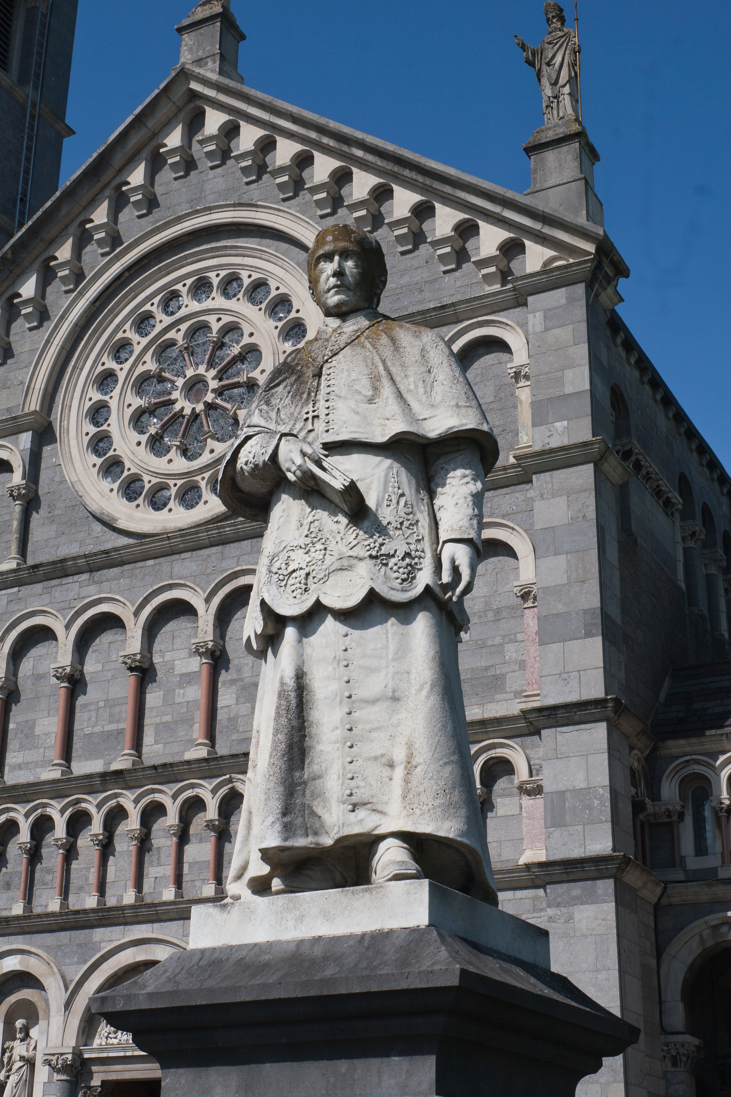 Statue of Archbishop Patrick Leahy in front of his cathedral, executed in Sicilian marble. The statue was created by Professor Pietro Lazzerini at Carrara, Italy. The statue was vandalized in the night from 26th to 27th June 2019 when the head has been “knocked off violently” and removed. The head has since then not been found nor returned despite multiple appeals by Archbishop O'Reilly. (See the articles from the Irish Times: Gardaí appeal for information after statue of Thurles archbishop decapitated (28 June 2019) and Renewed appeal made for recovery of head of Archbishop statue (1 December 2019).)